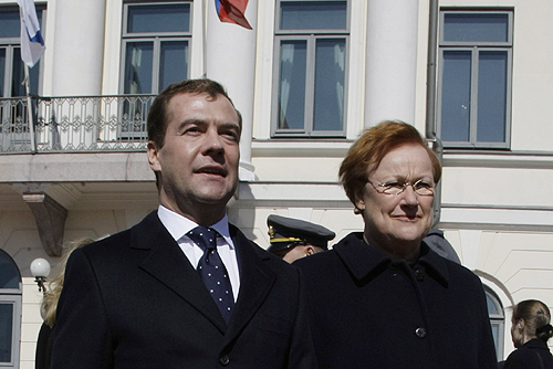 Dmitry Medvedev with Tarja Halonen during state visit to Finland [1]